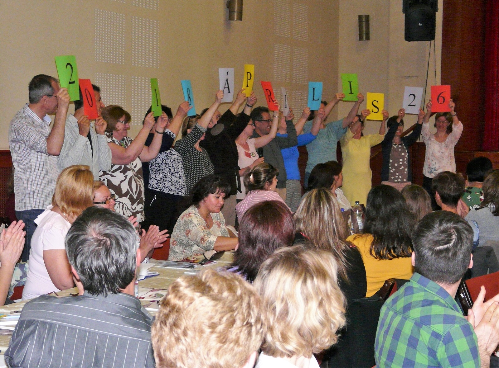 Meeting of Hungarian Alzheimer Cafes (Budapest, 2018)